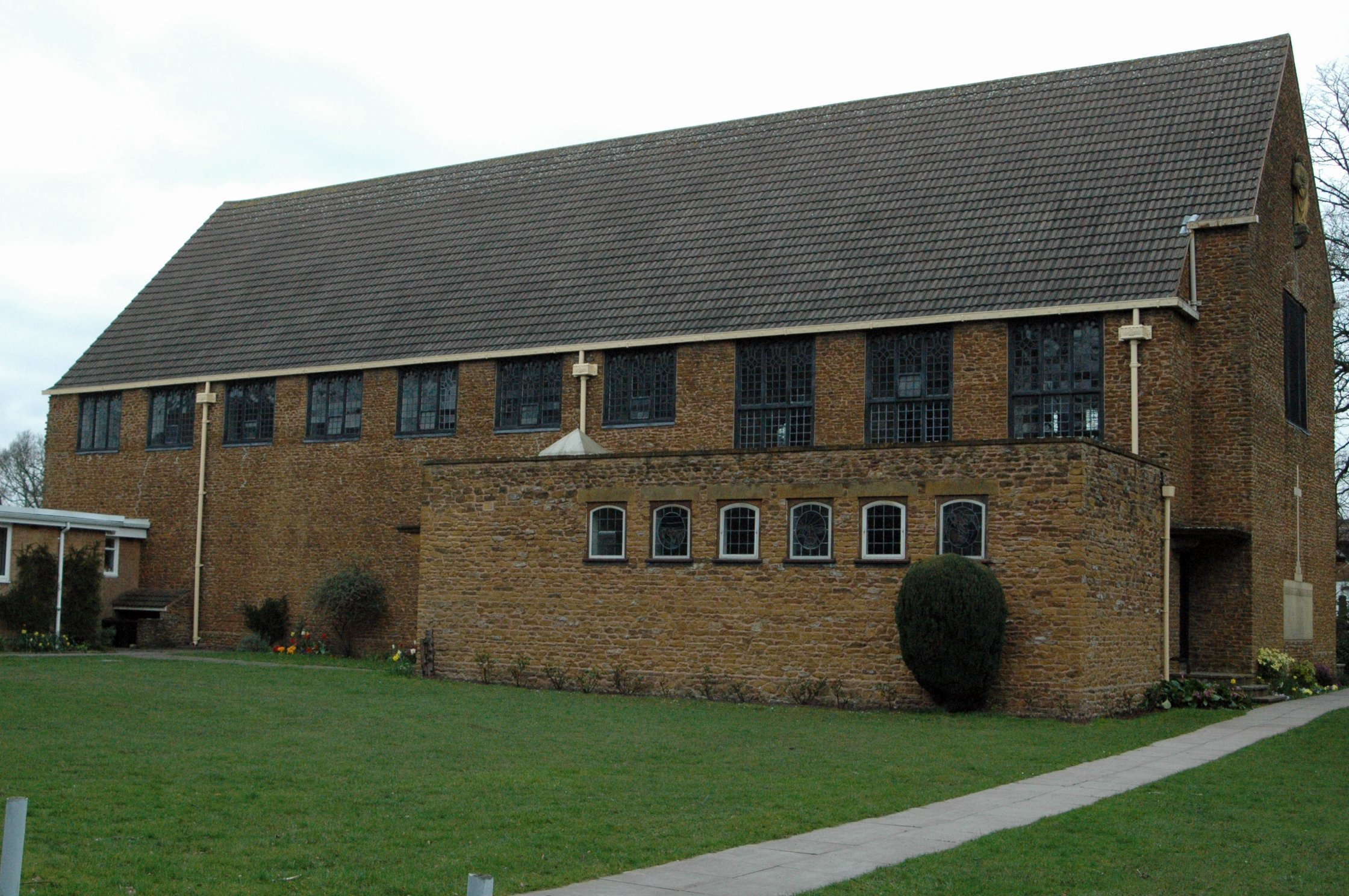 This is St Chads Church near Walmley in Sutton Coldfield. Designed by Charles Bateman, it was built between 1925 and 1927. The side chapel was built in 1977 to a design by Erie Marriner. It is Grade II listed.